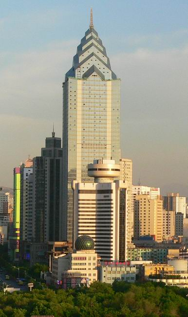 Zhong Tian Plaza, 229m skyscraper in Urumqi, China